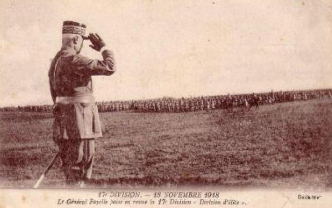 Postcard of France - French Army - The General Fayolle reviews the 17th elite division on November 13, 1918- Year 1918